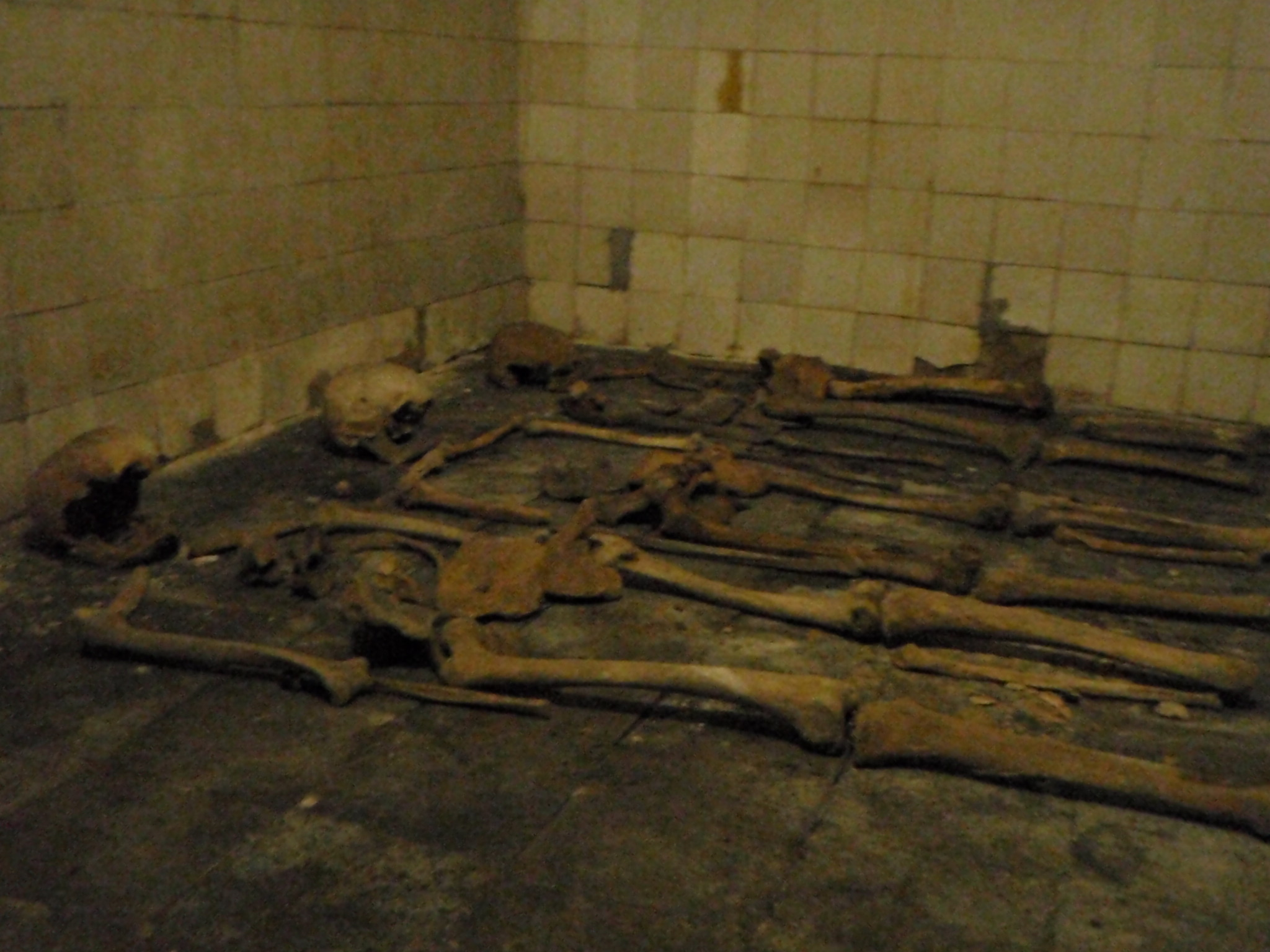 Human remains in St Eusebius' Church, Arnhem